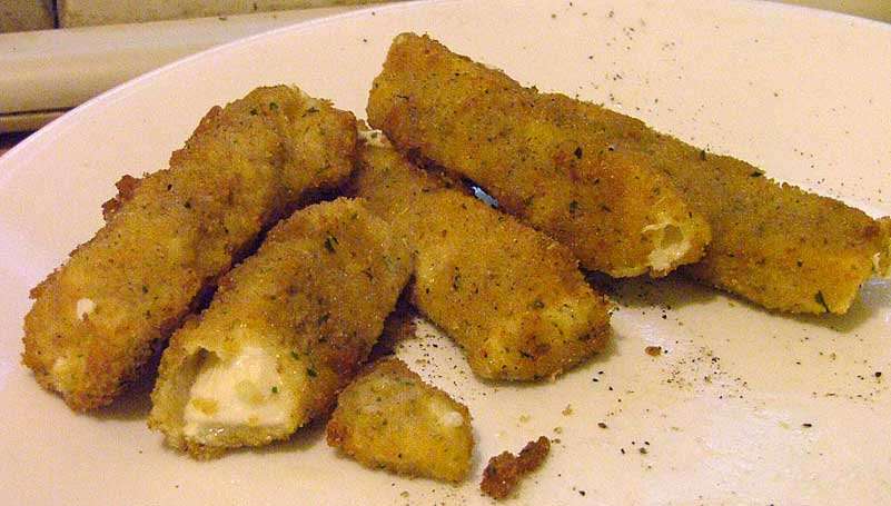 Fried mozzarella sticks.